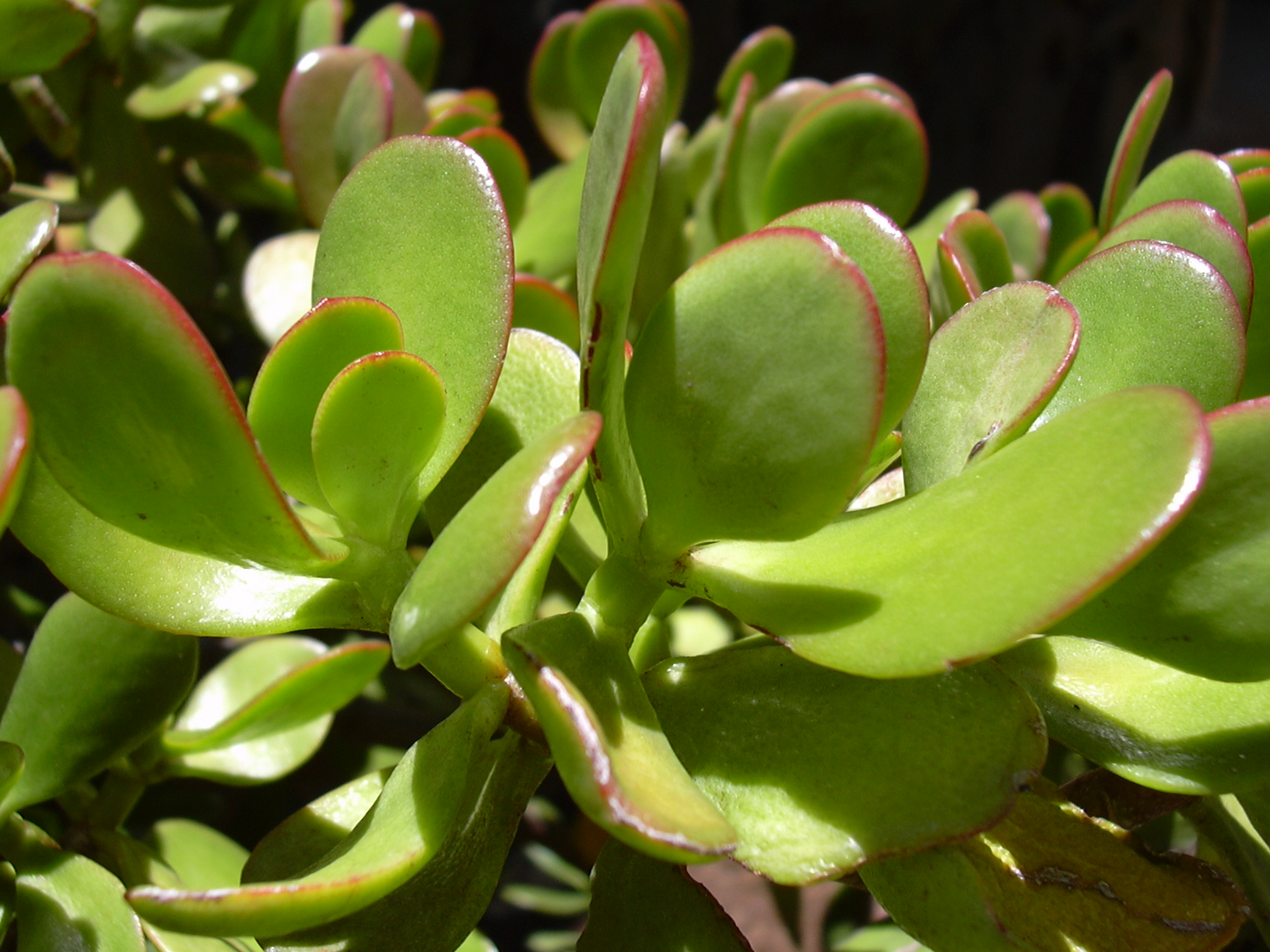 Crassula ovata (leaves). Location: Maui, Baldwin Ave